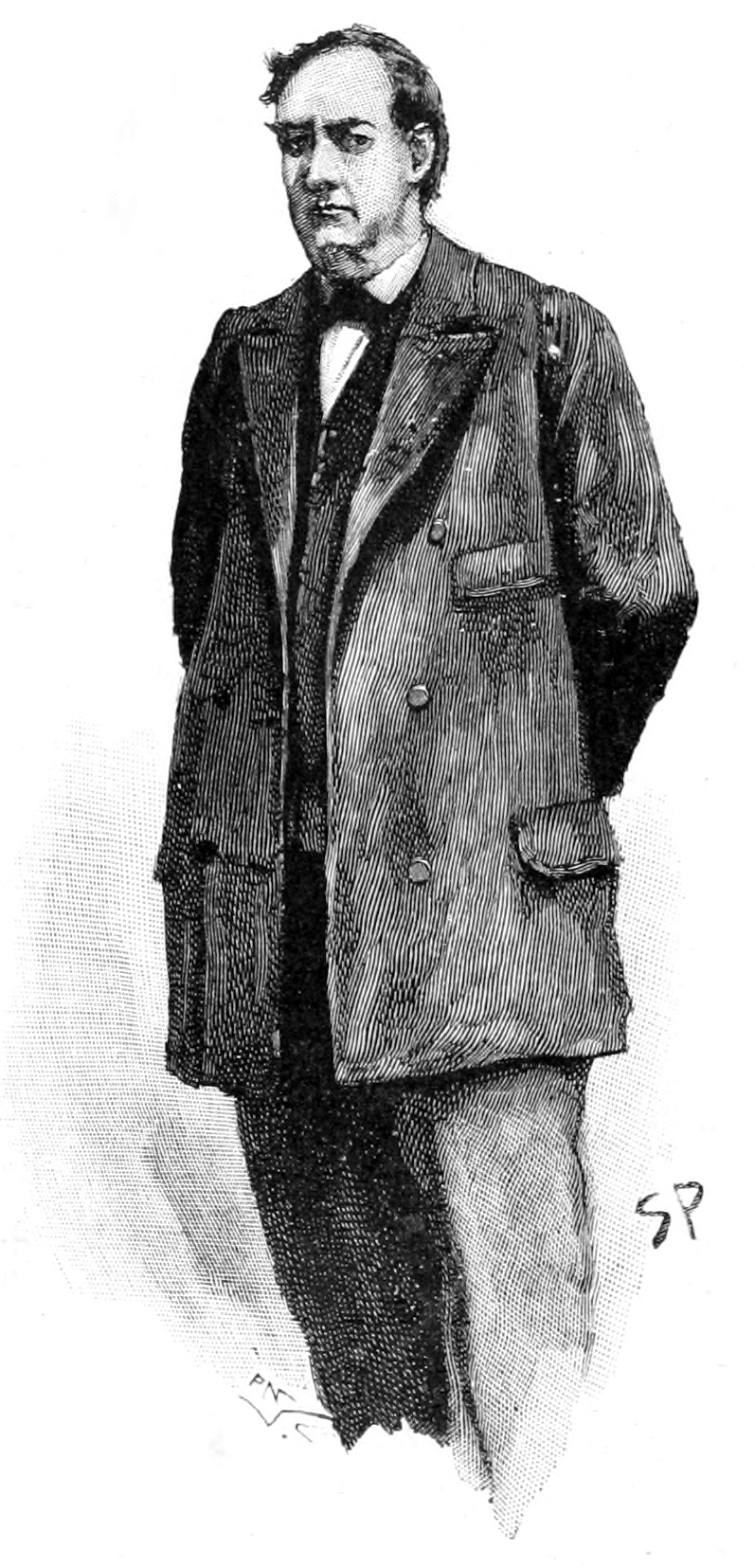 Illustration of the Sherlock Holmes adventure The Greek Interpreter, which appeared in The Strand Magazine in September, 1893. Original caption was MYCROFT HOLMES.